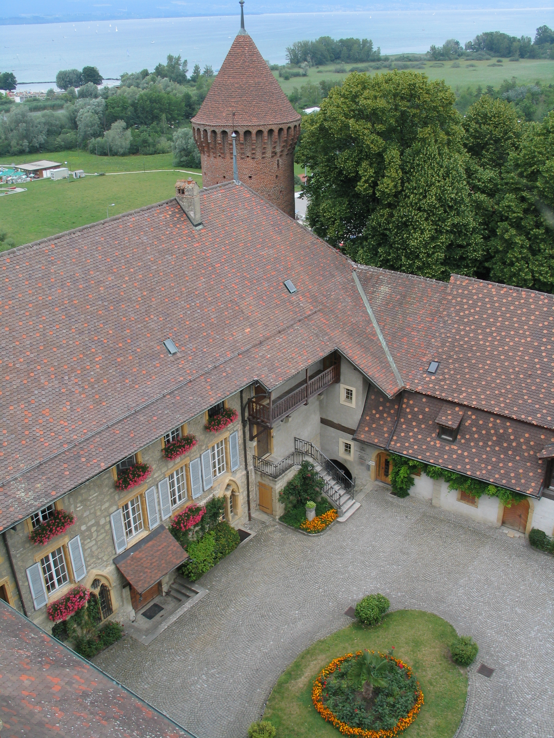 Castle of Estavayer-le-Lac in Switzerland. View from the keep.